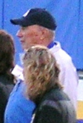 Darryl Rogers at halftime of a SJSU football game inducted in SJSU sports hall of fame